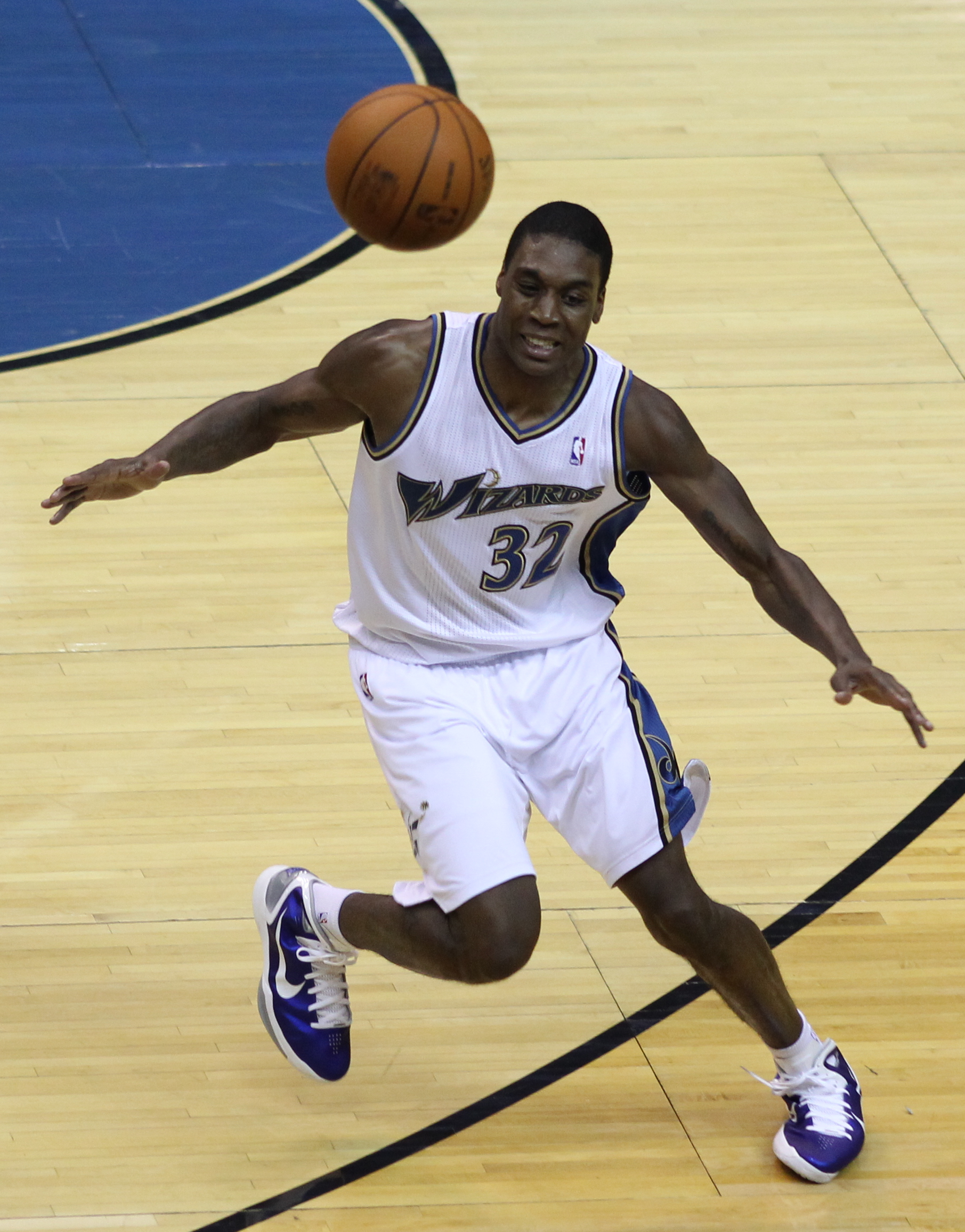 Boston Celtics v/s Washington Wizards April 11, 2011